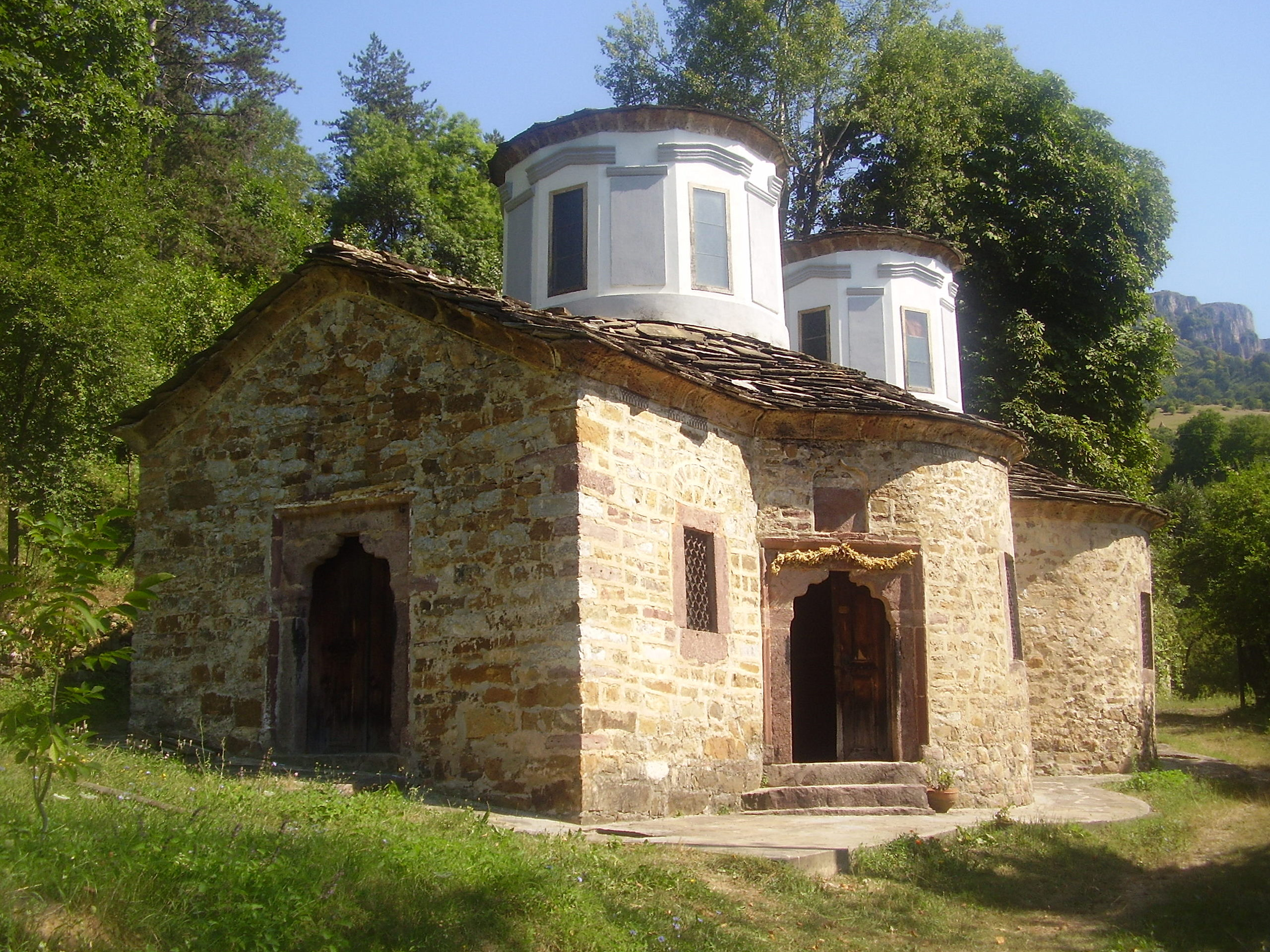 Monastery church "Saint Iliya" of 14 century. Teteven, Bulgaria